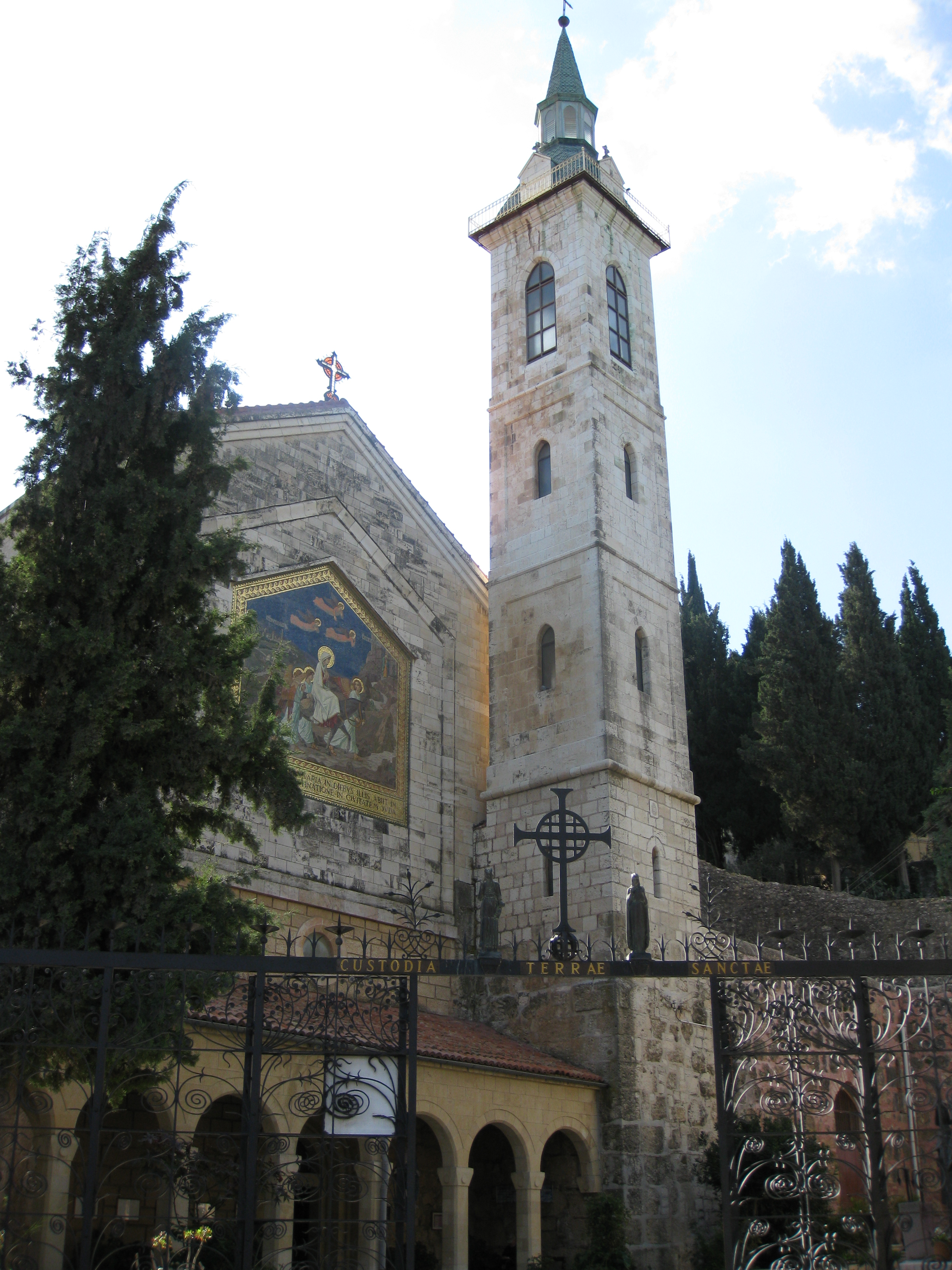 Facade of the Church of the Visitation